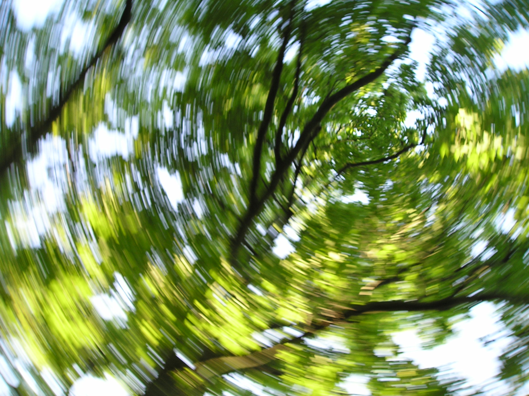 Vertigo, the sensation of one's surroundings are spinning around them is a common symptom of dizziness.